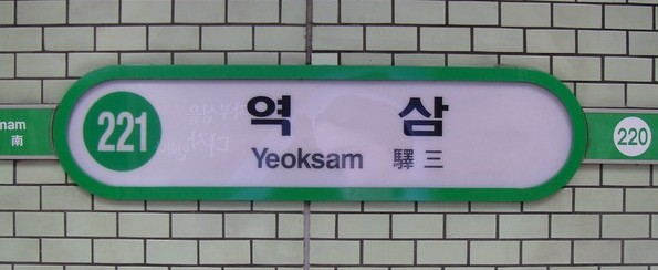 Yeoksam Station